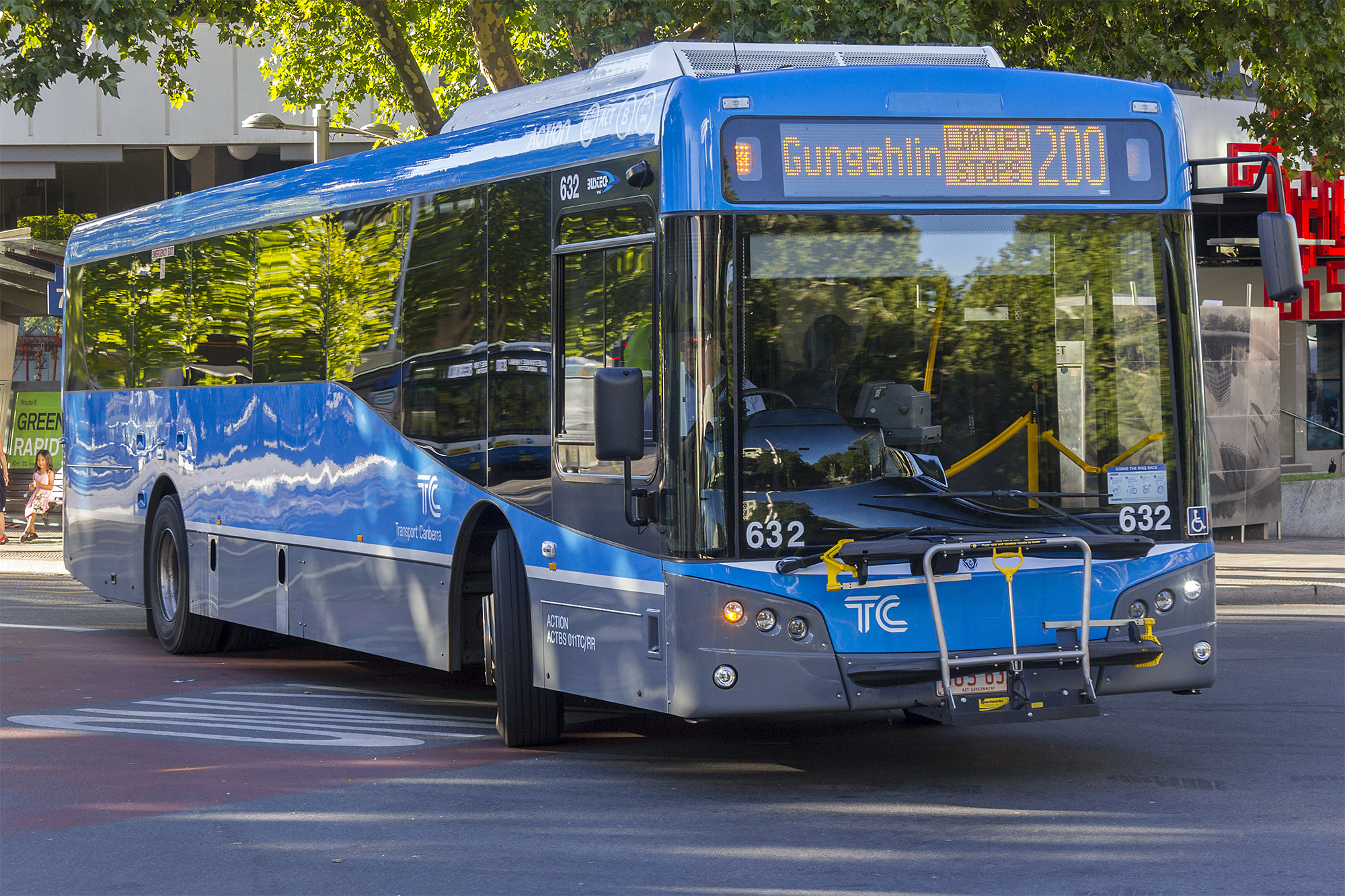 ACTION (BUS 632) Bustech VST bodied Scania K320UB 4x2 (Euro VI) in "blue" Transport Canberra livery at City Bus Station.